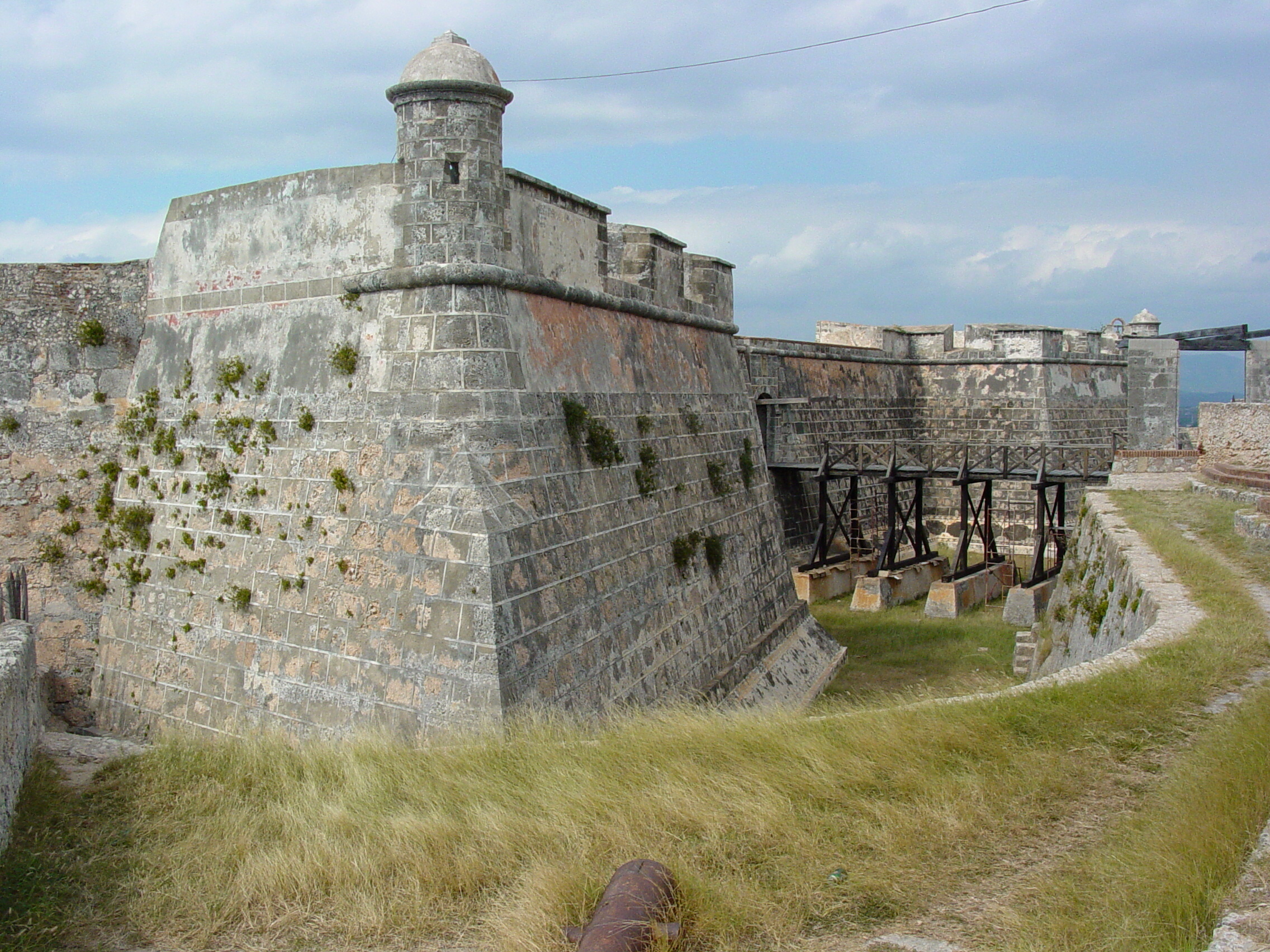 Castillo de San Pedro del Morro, near Santiago de Cuba, Cuba. January 2003.